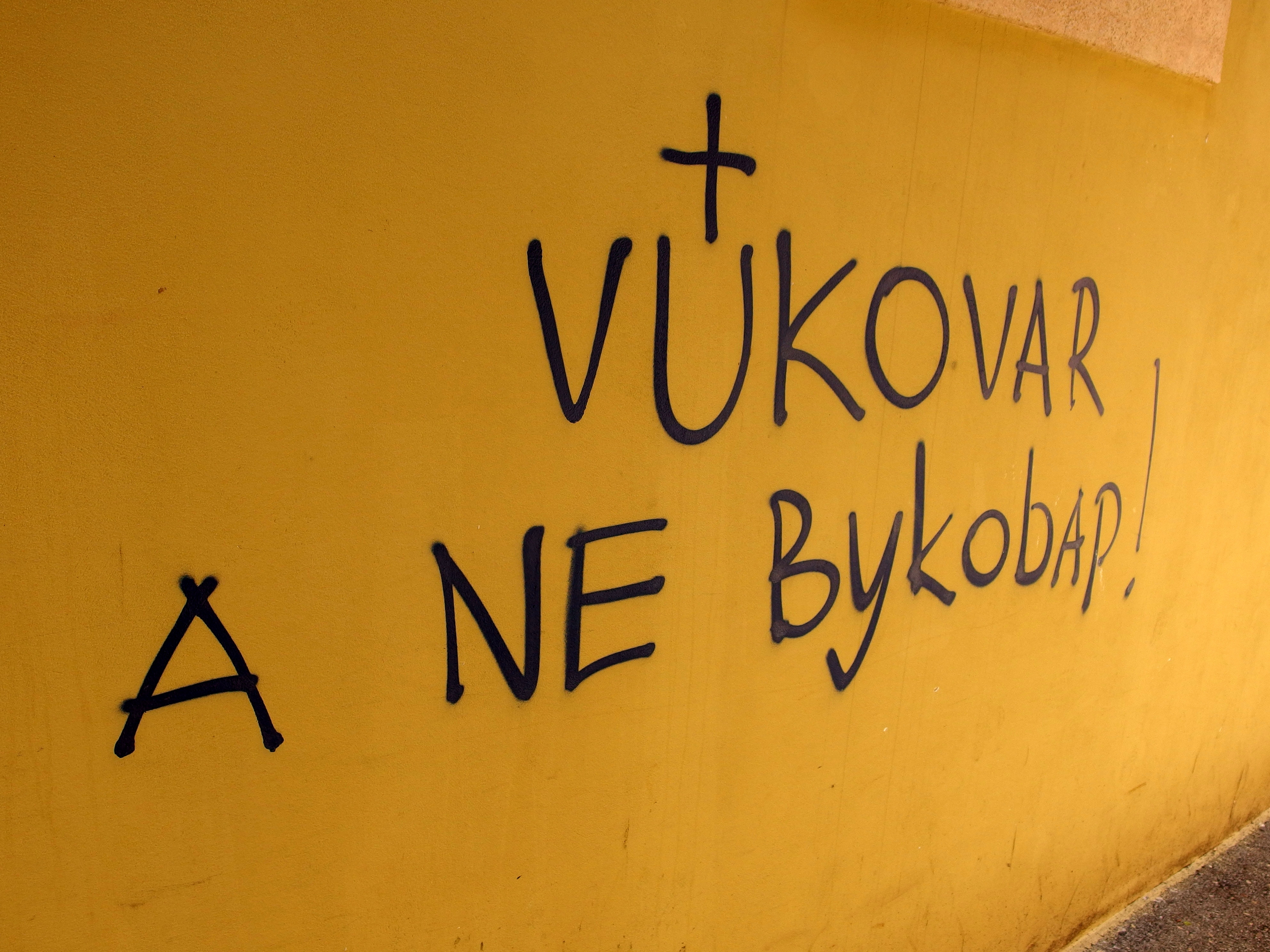 2013-06-09 in Zagreb.